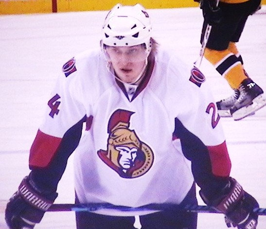 Anton Volchenkov, Taken from Boston Bruins vs. Ottawa Senators game, TD Banknorth Garden, Boston, Massachusetts, United States